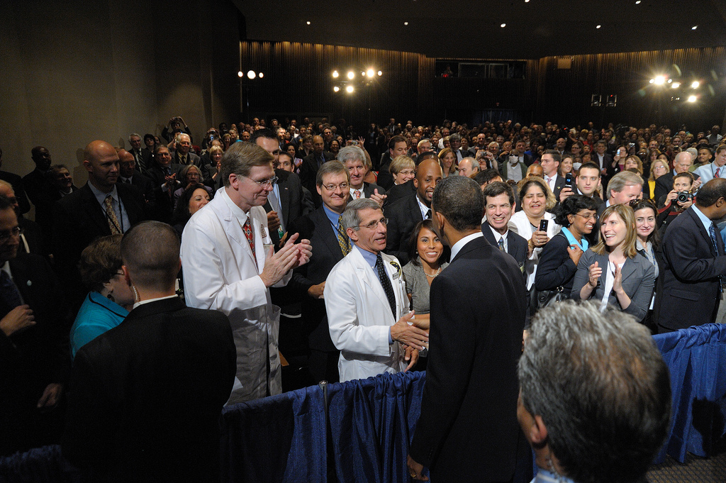 President Obama greets Dr Anthony Fauci_9203044910_l